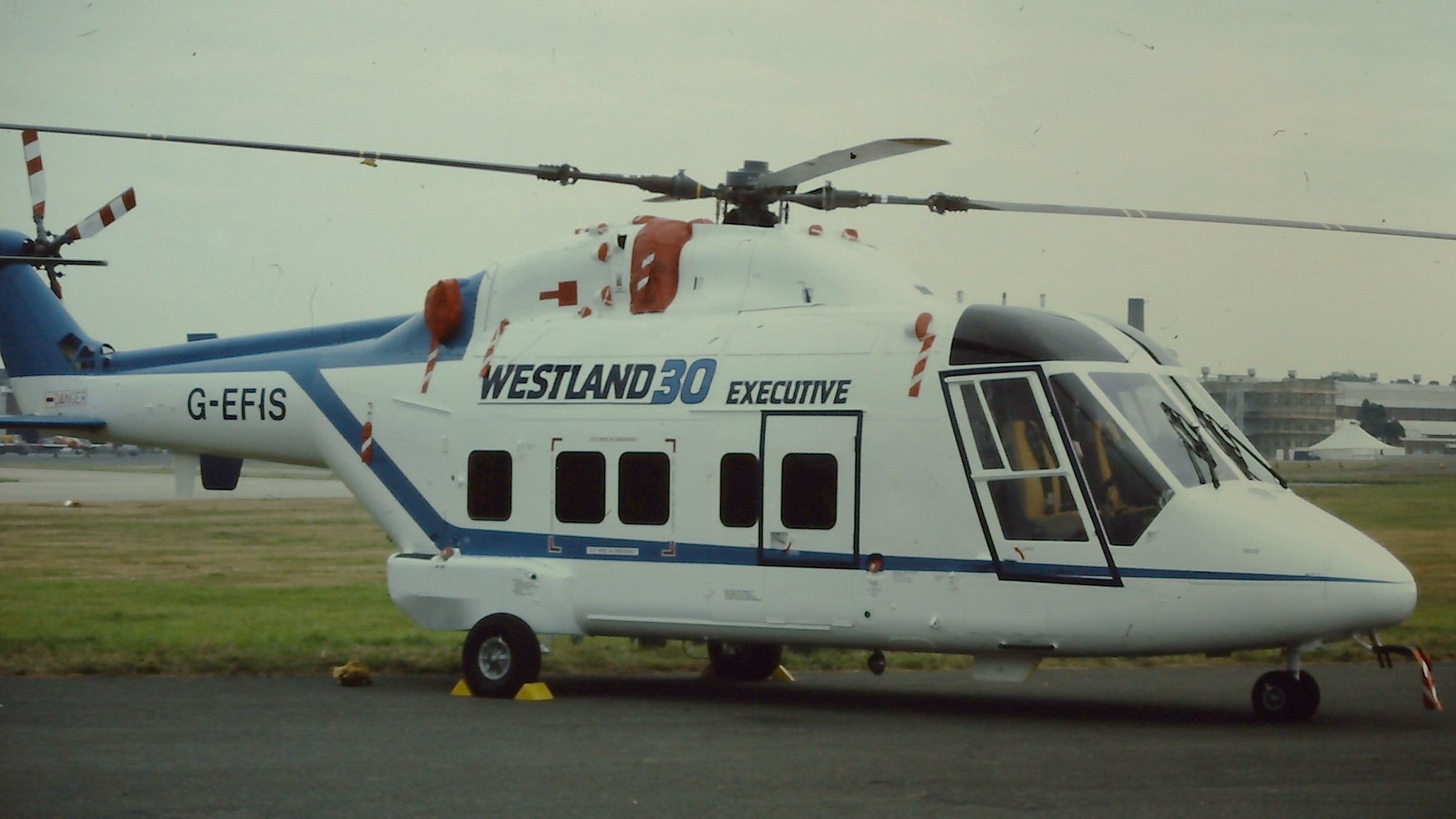 Westland 30 Executive registered in the United Kingdom as G-EFIS on display at the 1984 Farnborough International Air Display.